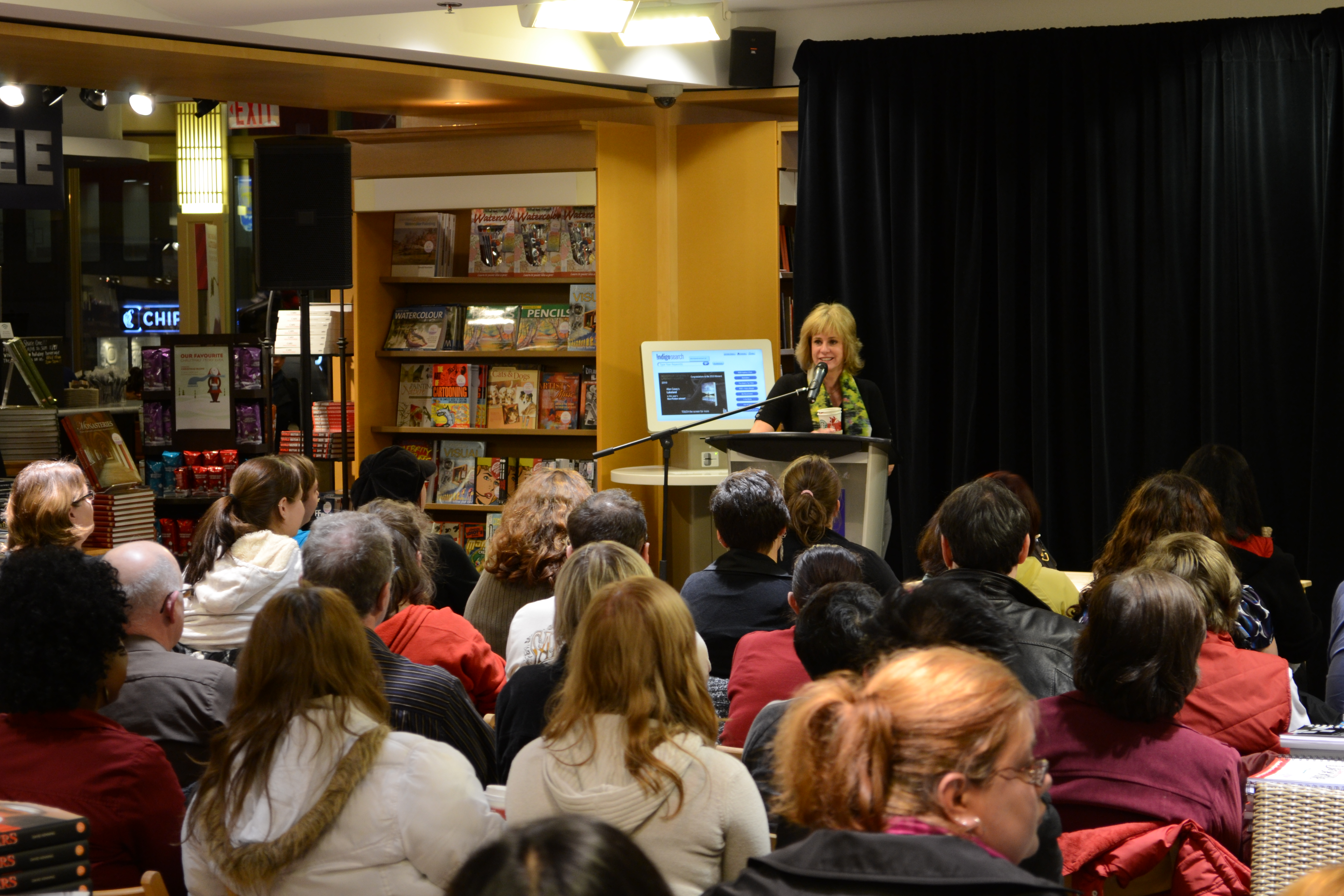 Kathy Reichs at Virals book signing event. Location: Indigo Yonge & Eglinton, Toronto